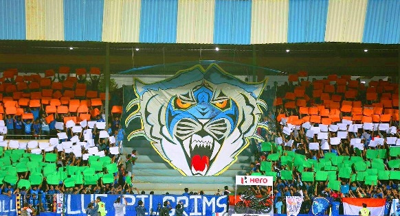 30 feet 3D tifo of Blue Tiger displayed by the Bule Pilgrims in June 2018 to support the India national football team in response to Sunil Chhetri's video of urging people to support the team.